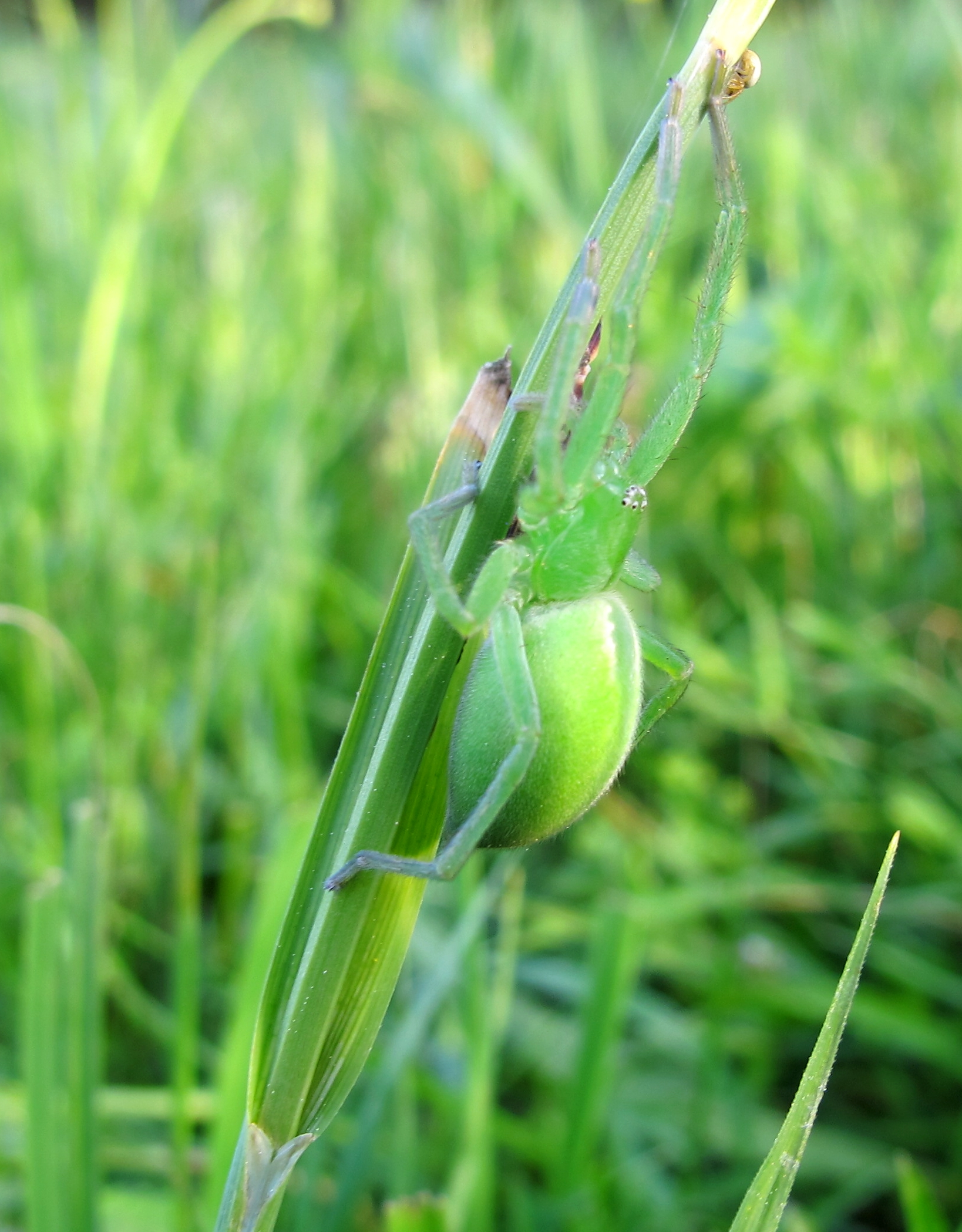 Micrommata virescens in nature reserve Andělské schody, near Voznice in Příbram District